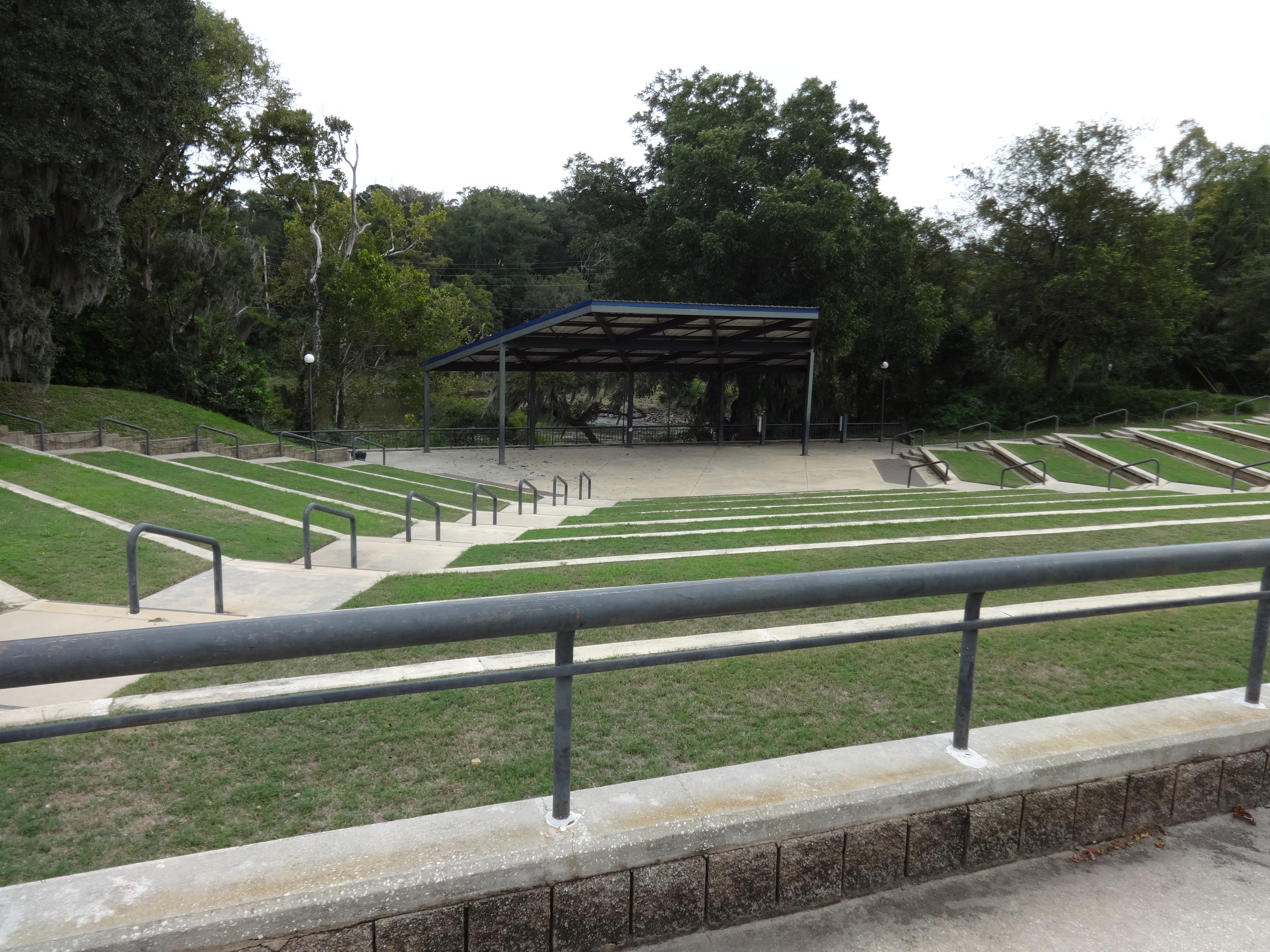 Veterans Park, Albany, Dougherty County, Georgia